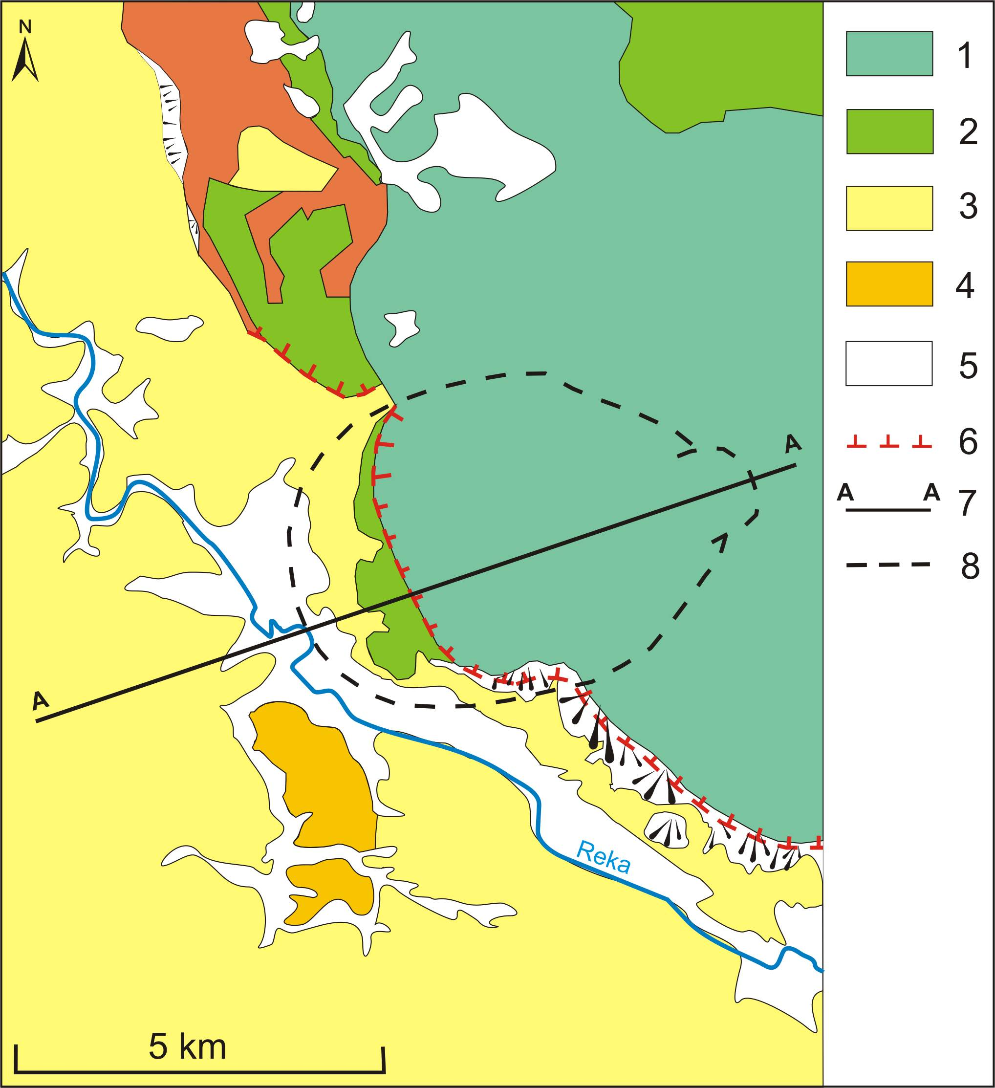 Geological map. 1. Mesozoic carbonates; 2. Paleocene limestones; 3. Eocene flysch; 4. Pliocene clays with coal; 5. Quarternary; 6. Boundary of Snežnik thrust sheet; 7. Longitudinal section along the landslide; 8. Boundary of the landslide